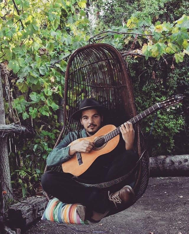 chilean musician Tomás del Real in Santiago de Chile, 2018